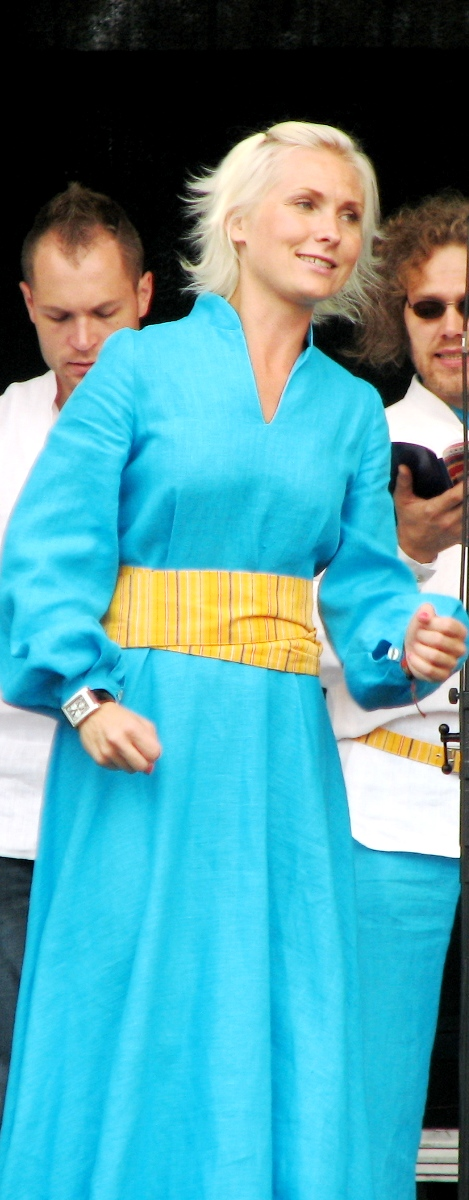 Estonian conductor Veronika Portsmuth on a stage of Tallinn Maritime Days